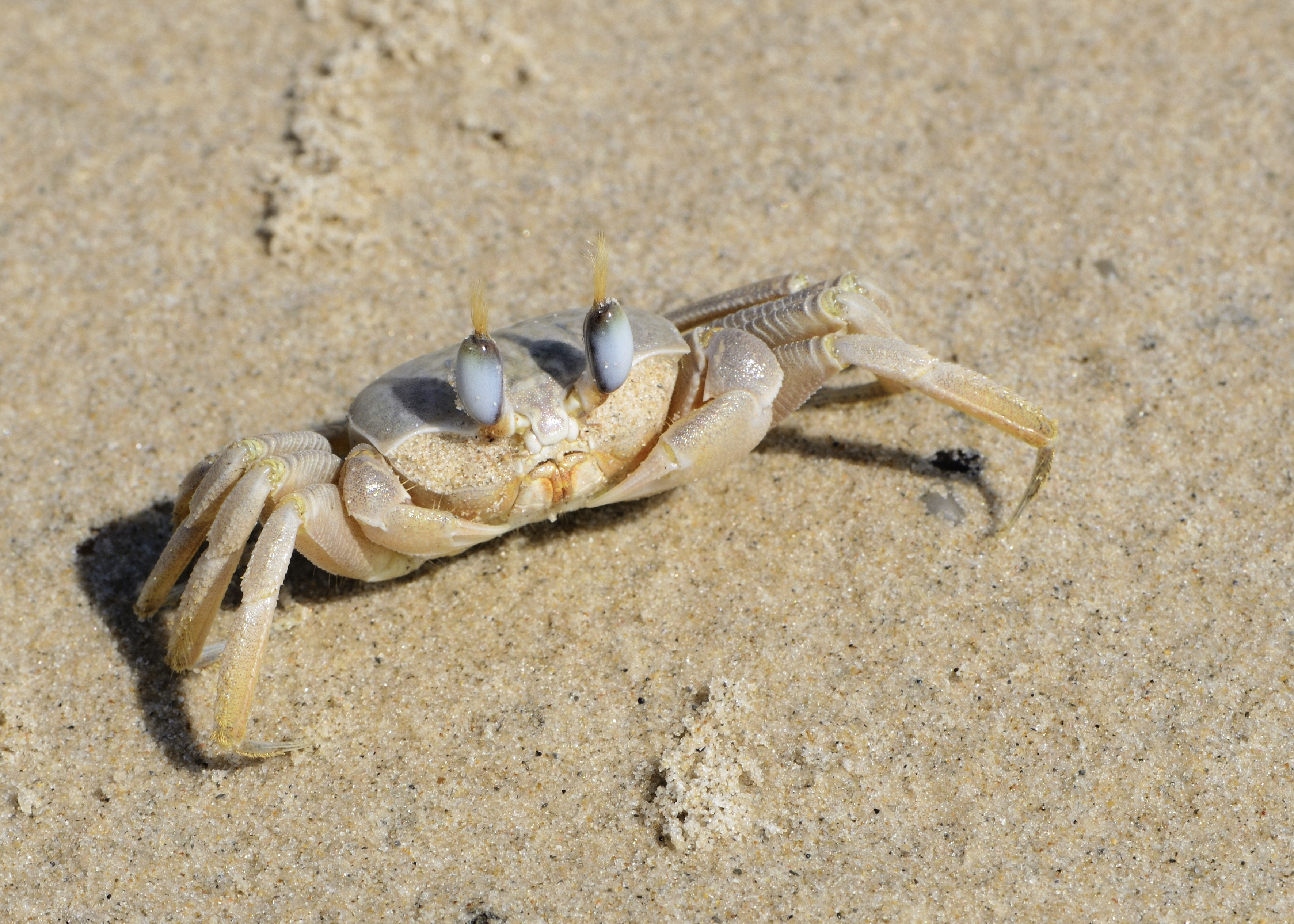 Ocypode cursor, Dor-Habonim Beach, Israel, February 26, 2012, showing tufts on eyes.